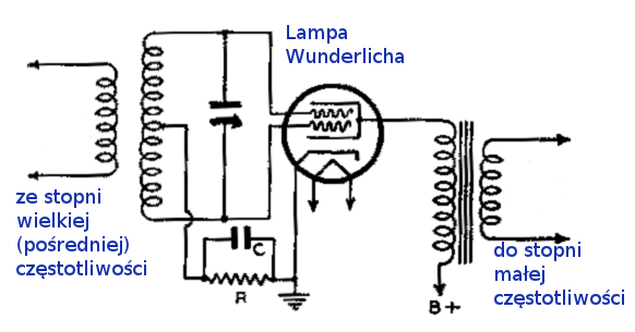 Amplitude detector based on Wunderlich tube.